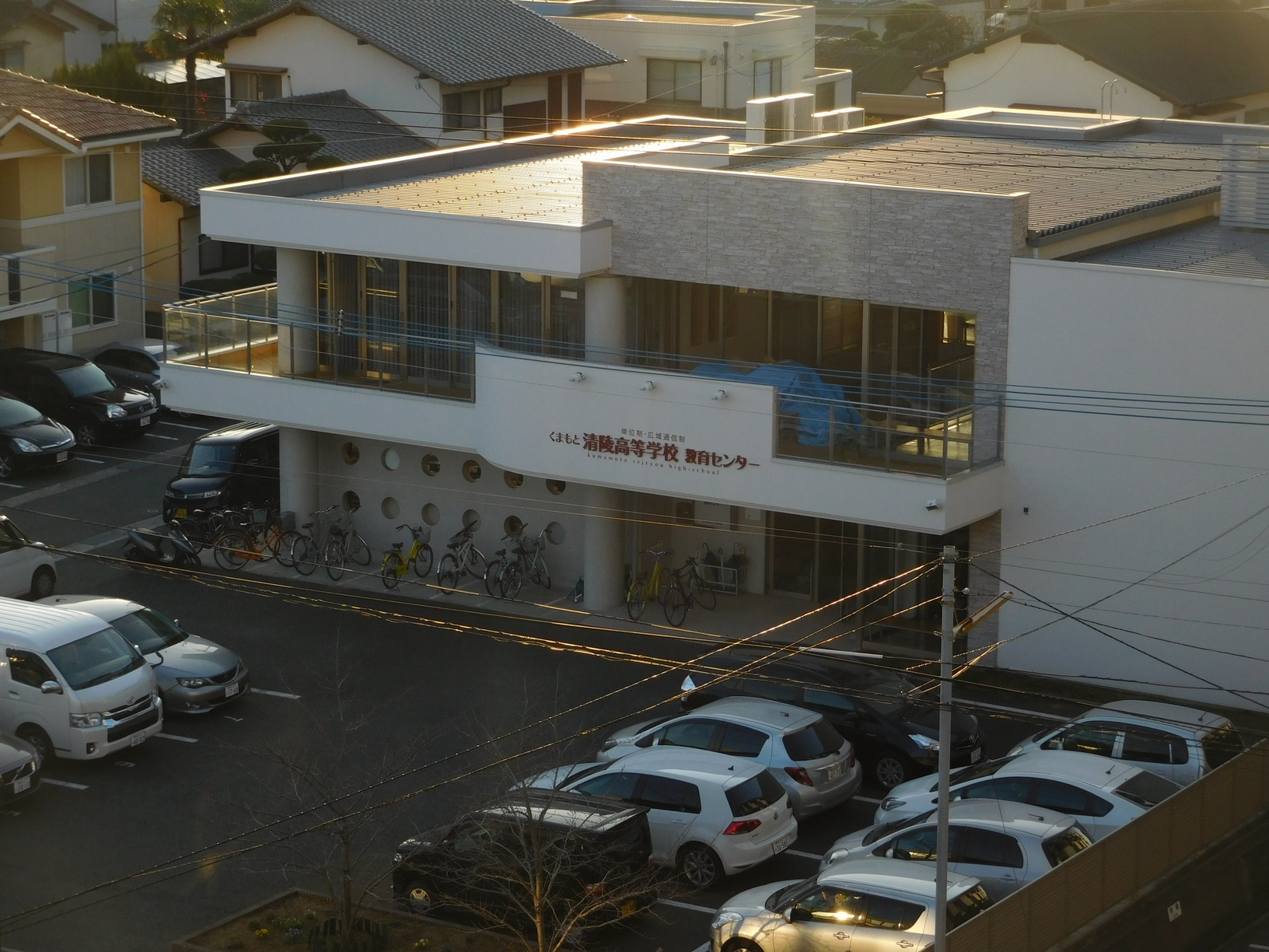 Kumamoto Seiryo High School Education Center (Chuo-ku, Kumamoto City, Japan)